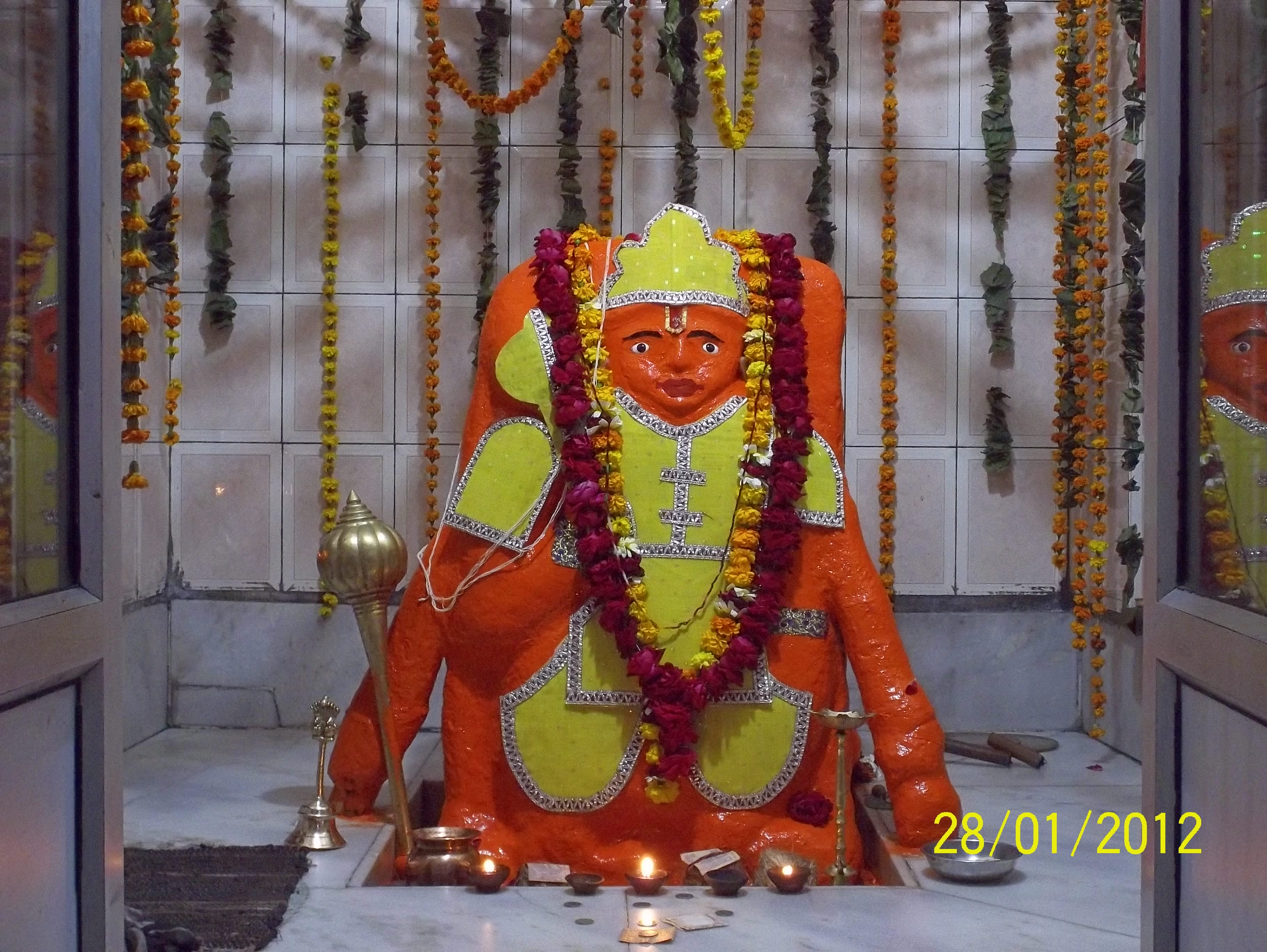 taad ka balaji photo